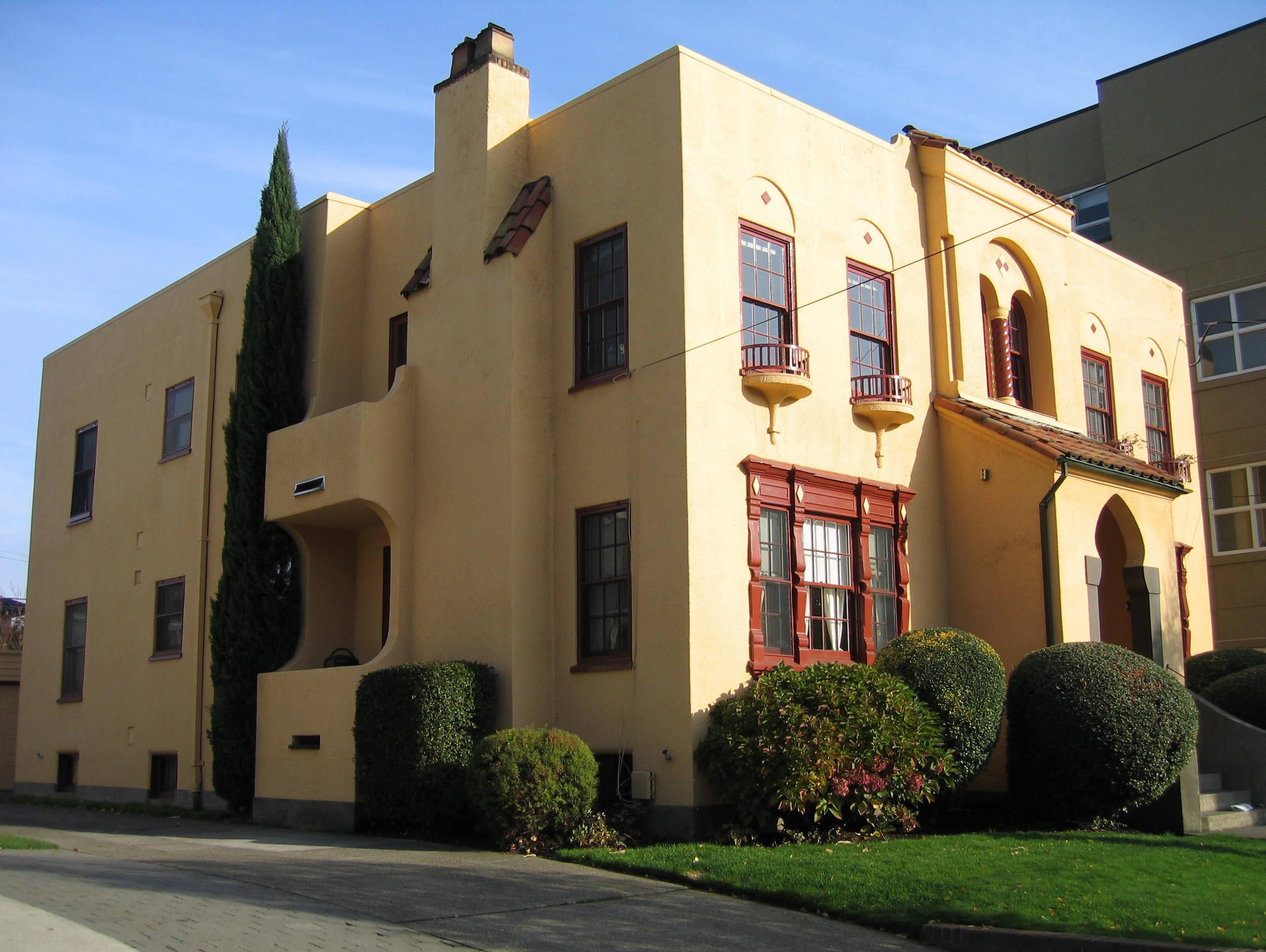 Southview view of the Francis Marion Stokes Fourplex